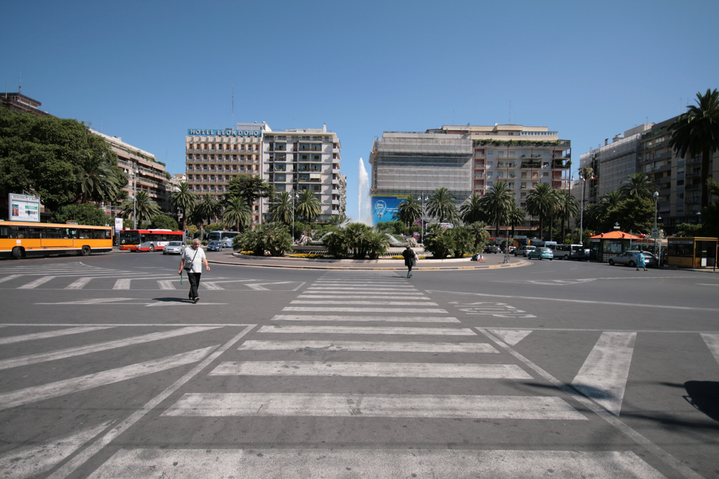 Piazza Moro in Bari view from the Central Station